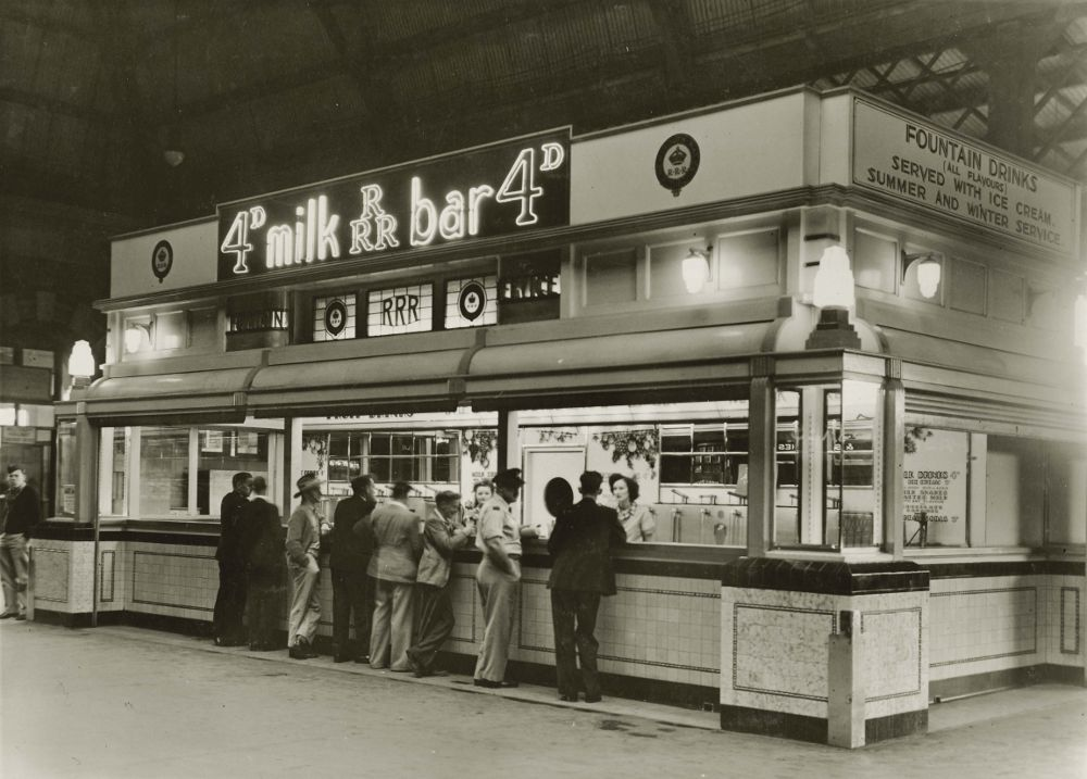 Central Railway Station, Sydney - exterior of milk bar Dated: 09/04/1946 Digital ID: 17420_a014_a014000088 Rights: We'd love to hear from you if you use our photos. Many other photos in our collection are available to view and browse on our website using Photo Investigator.